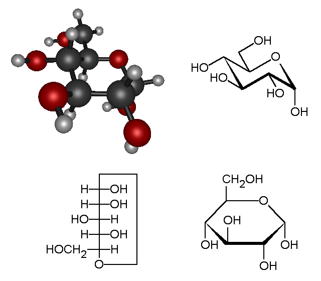 Comparison of some expressions of alpha-D-glucopyranose structure.